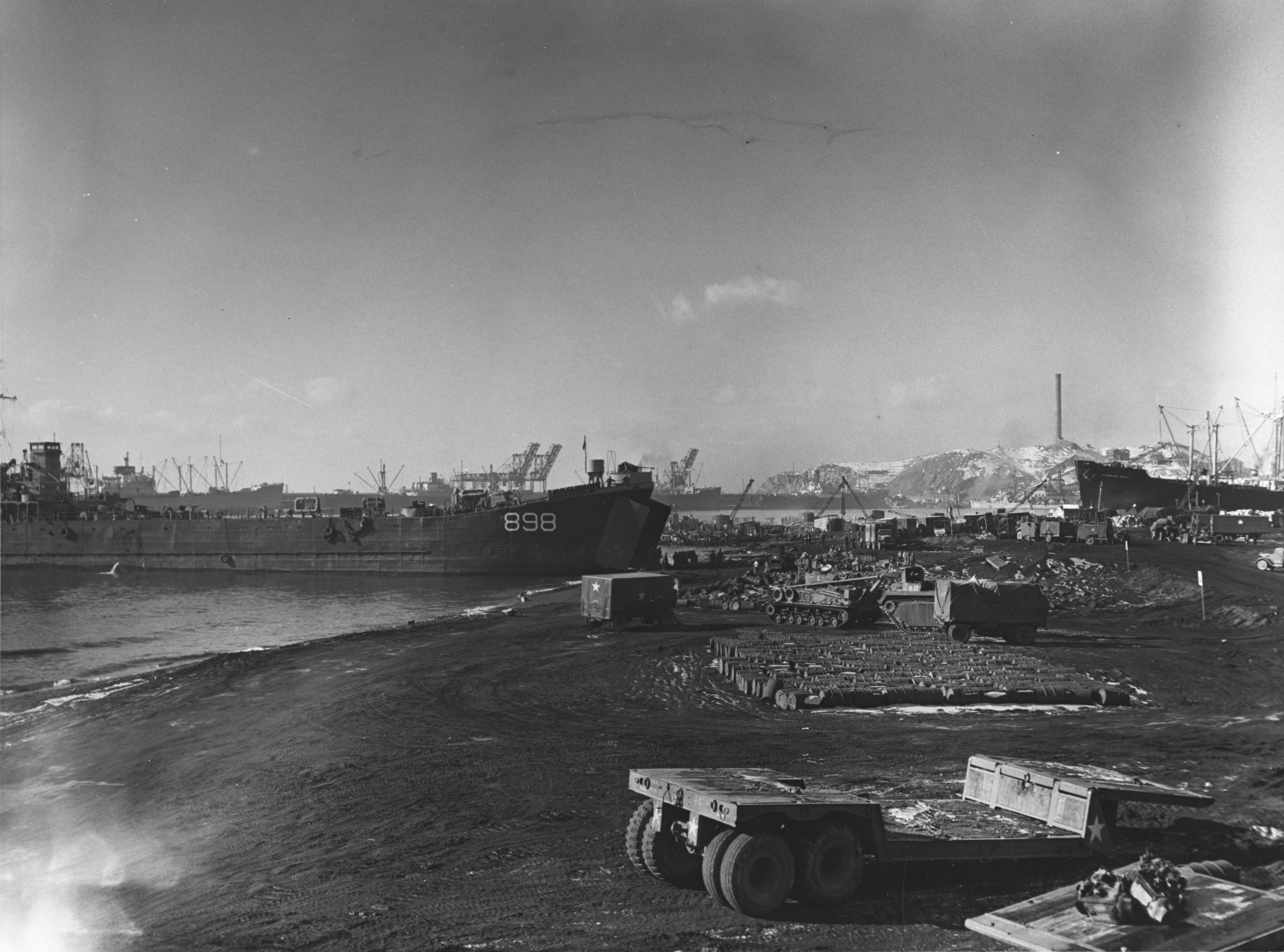 Hungnam Evacuation, December 1950: Scene on the Hungnam waterfront during the evacuation of the U.S. 1st Marine Division, 14 December 1950. Identifiable ships present include: USS LST-898, at left; SS Canada Mail, extreme right; and USS Foss (DE-59), in the right distance, providing electric power to the port area.